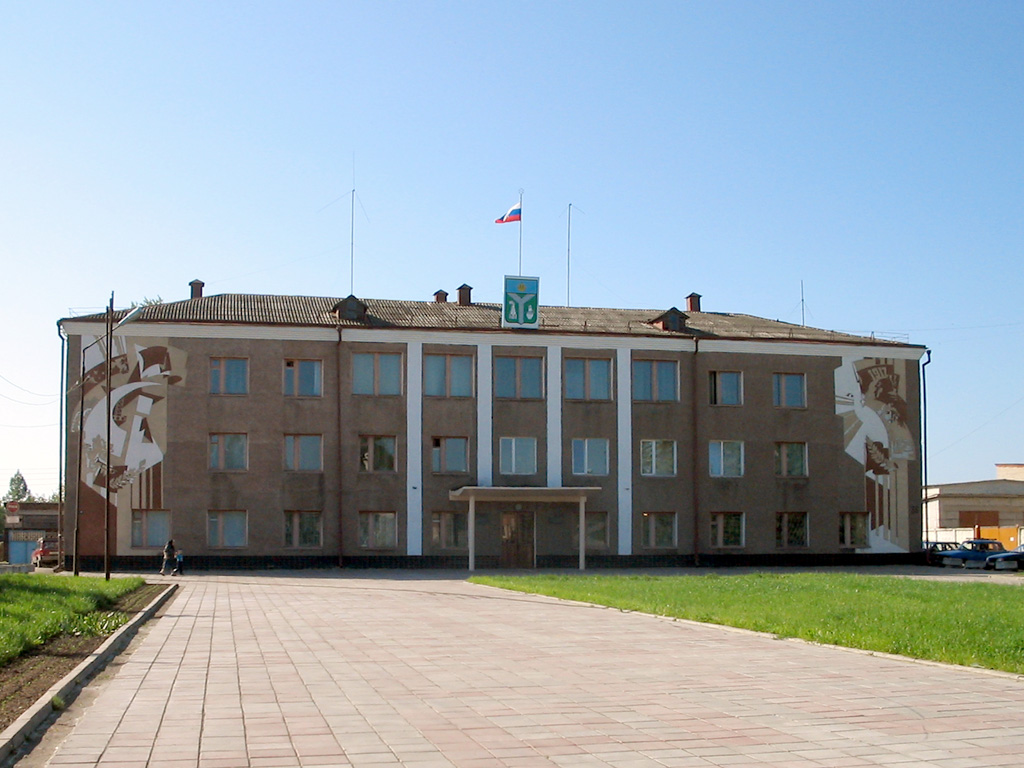 Kirov (Kaluga Oblast), town hall.